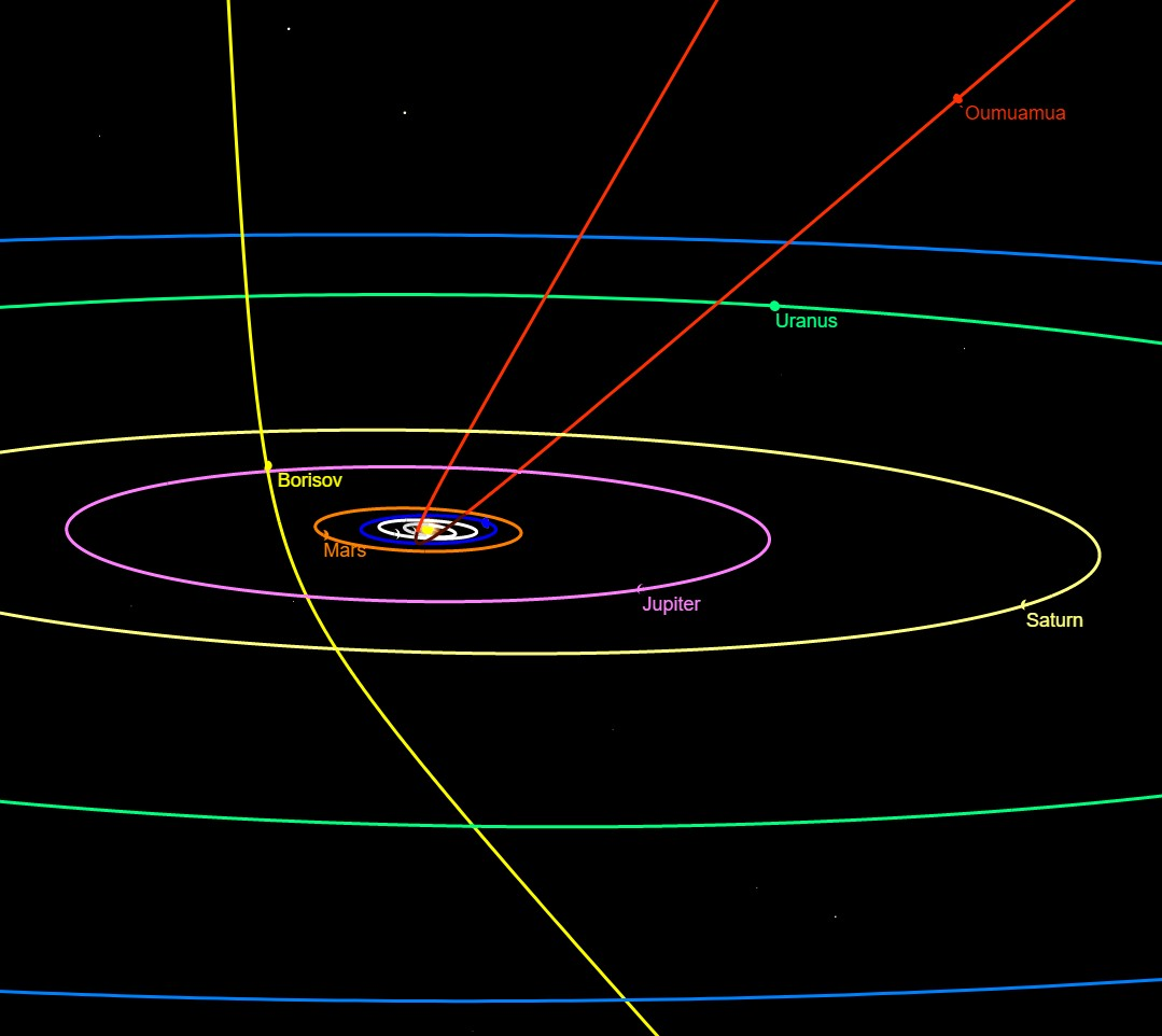 A comparison of two interstellar objects passing through our solar system